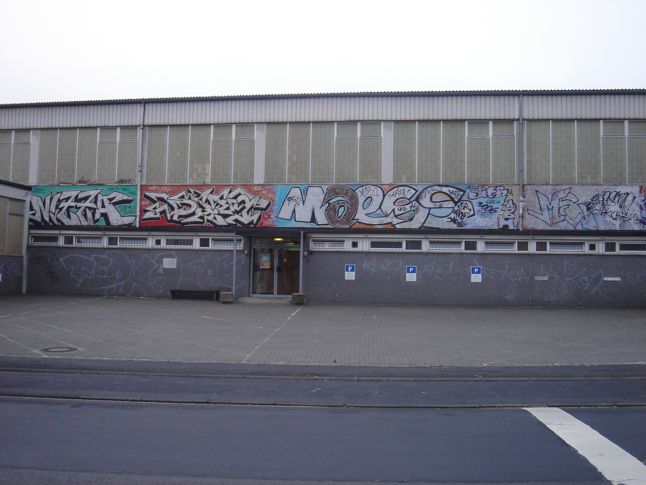 Gymnasium of the Humboldtschule, Bad Homburg vor der Höhe, Germany